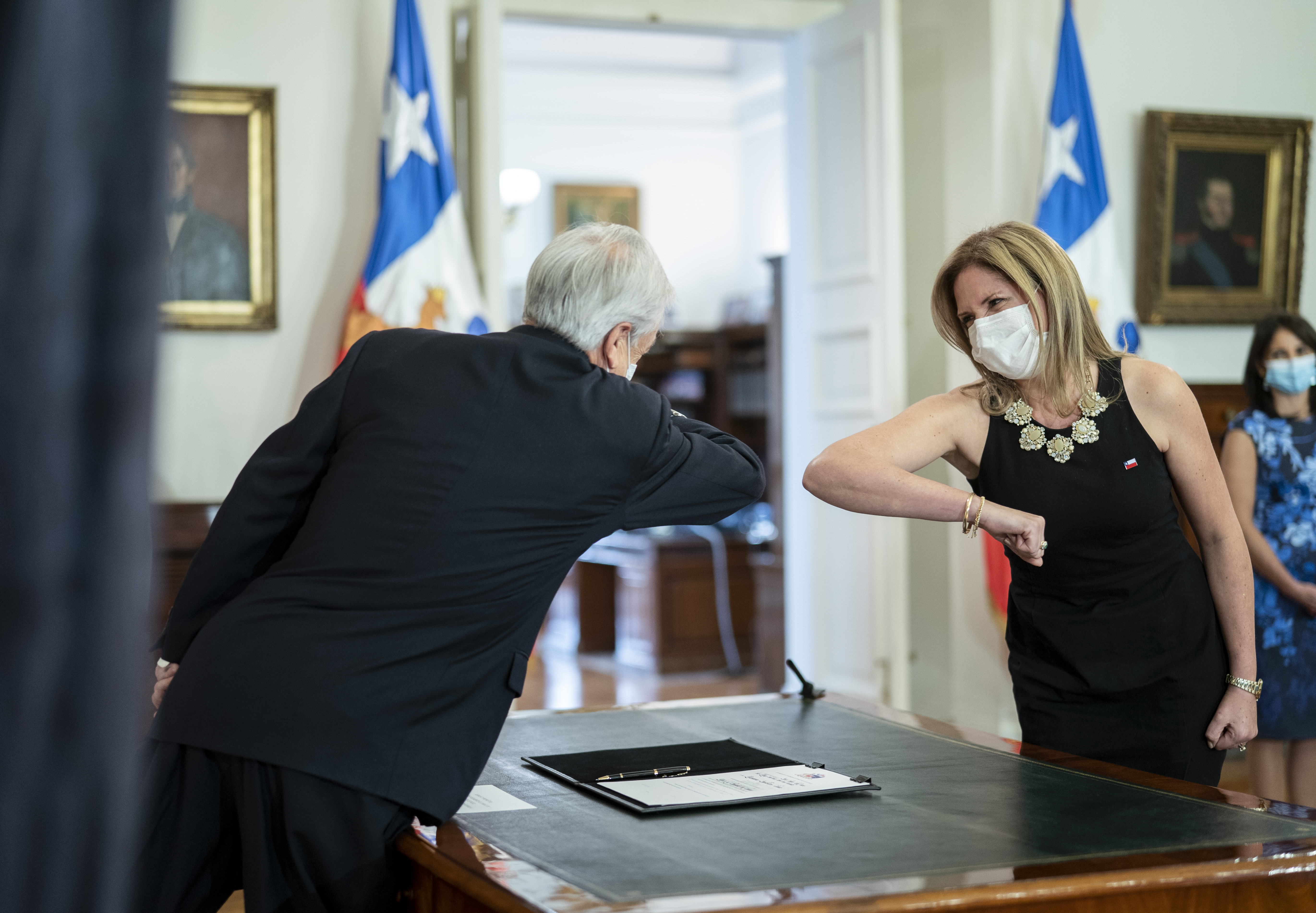 Official photo of Macarena Santelices in a greeting with President Sebastián Piñera during the oath as Minister of Women and Gender Equity